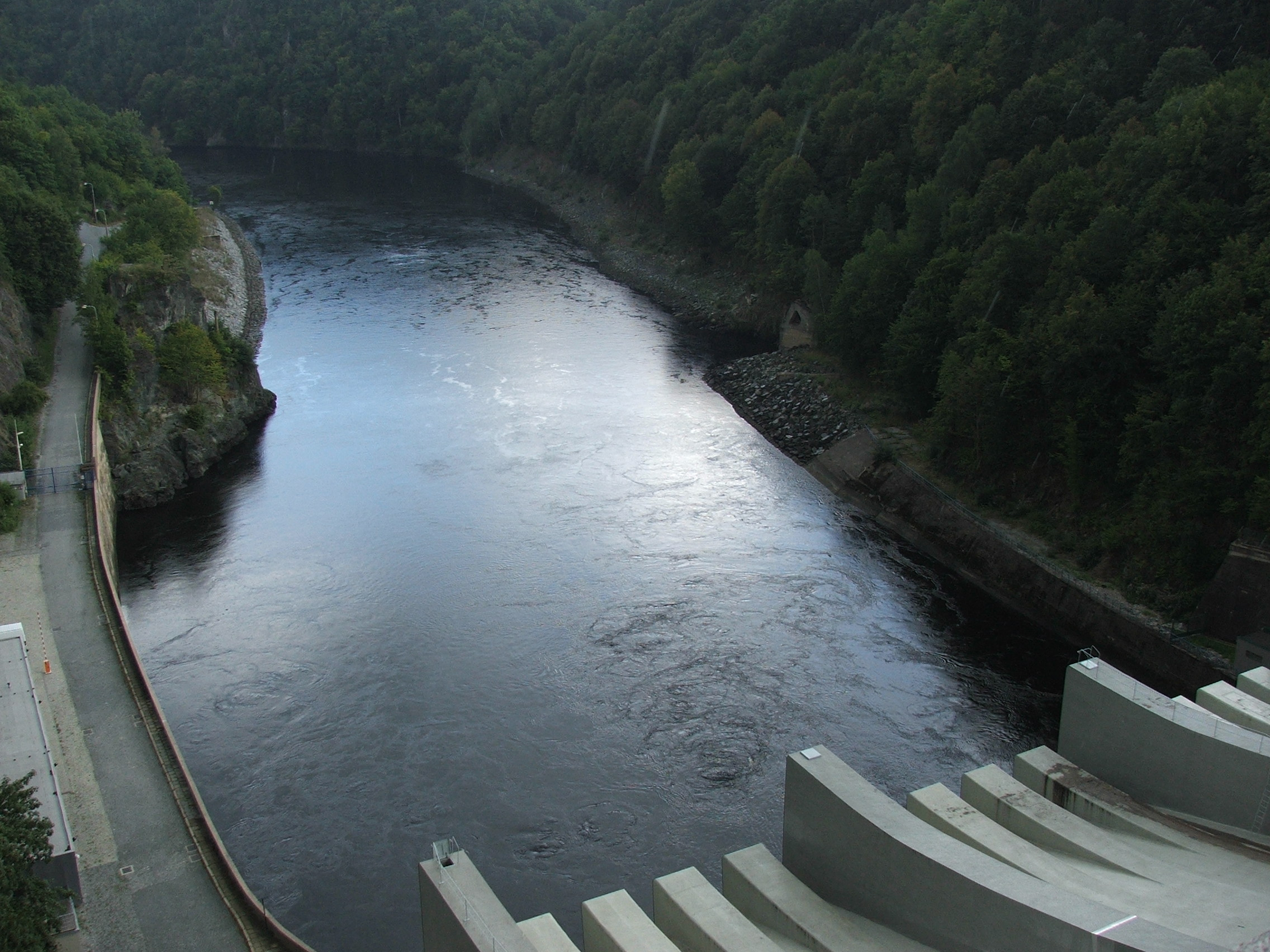 View on Vltava from Slapy Dam on Vltava river, Czechia